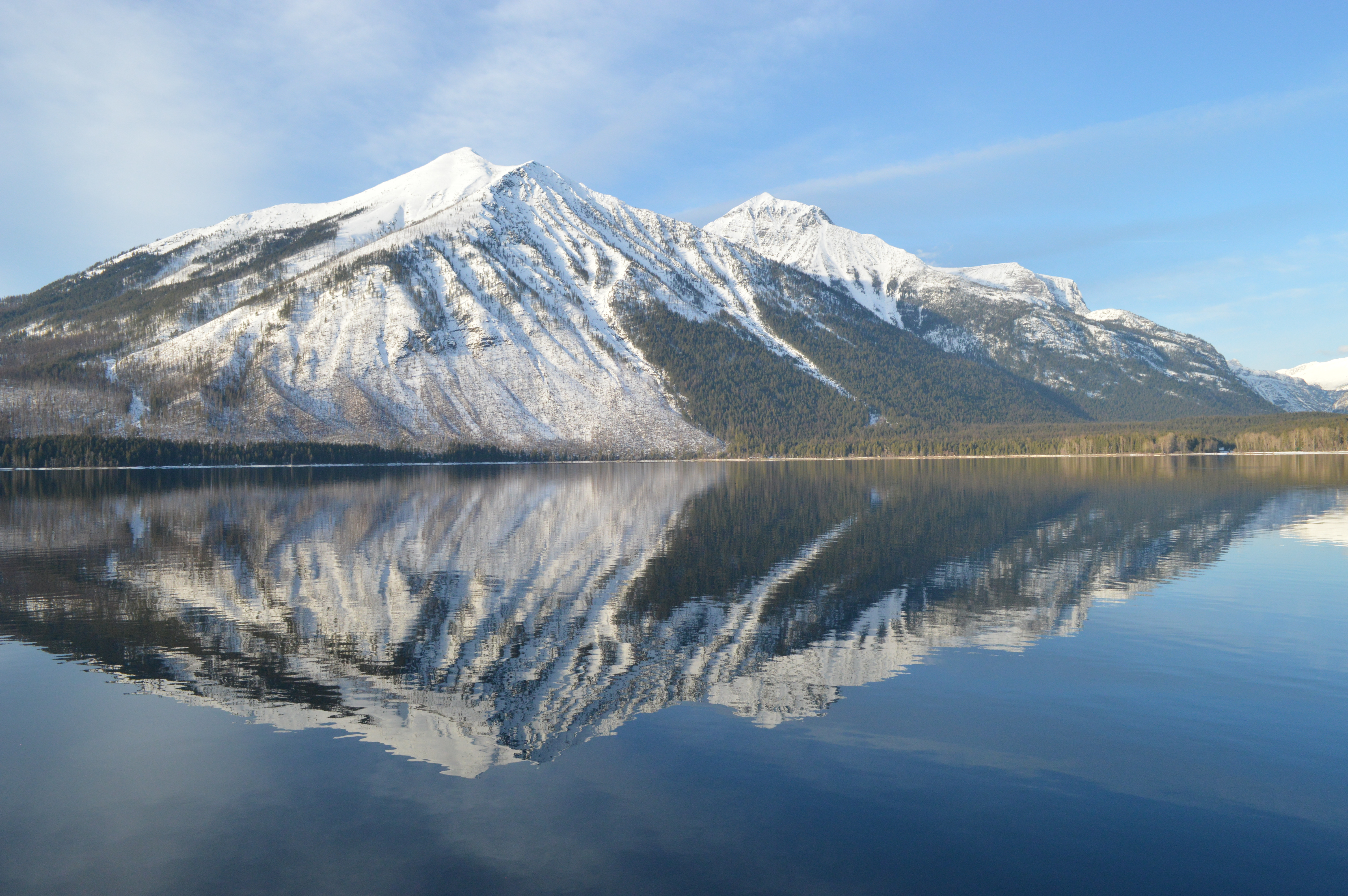 Stanton Mountain (left) and Mount Vaught (right) reflected in Lake McDonald. Glacier National Park, Montana